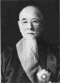 Lin Sen, President of the Republic of China (1931-1943)